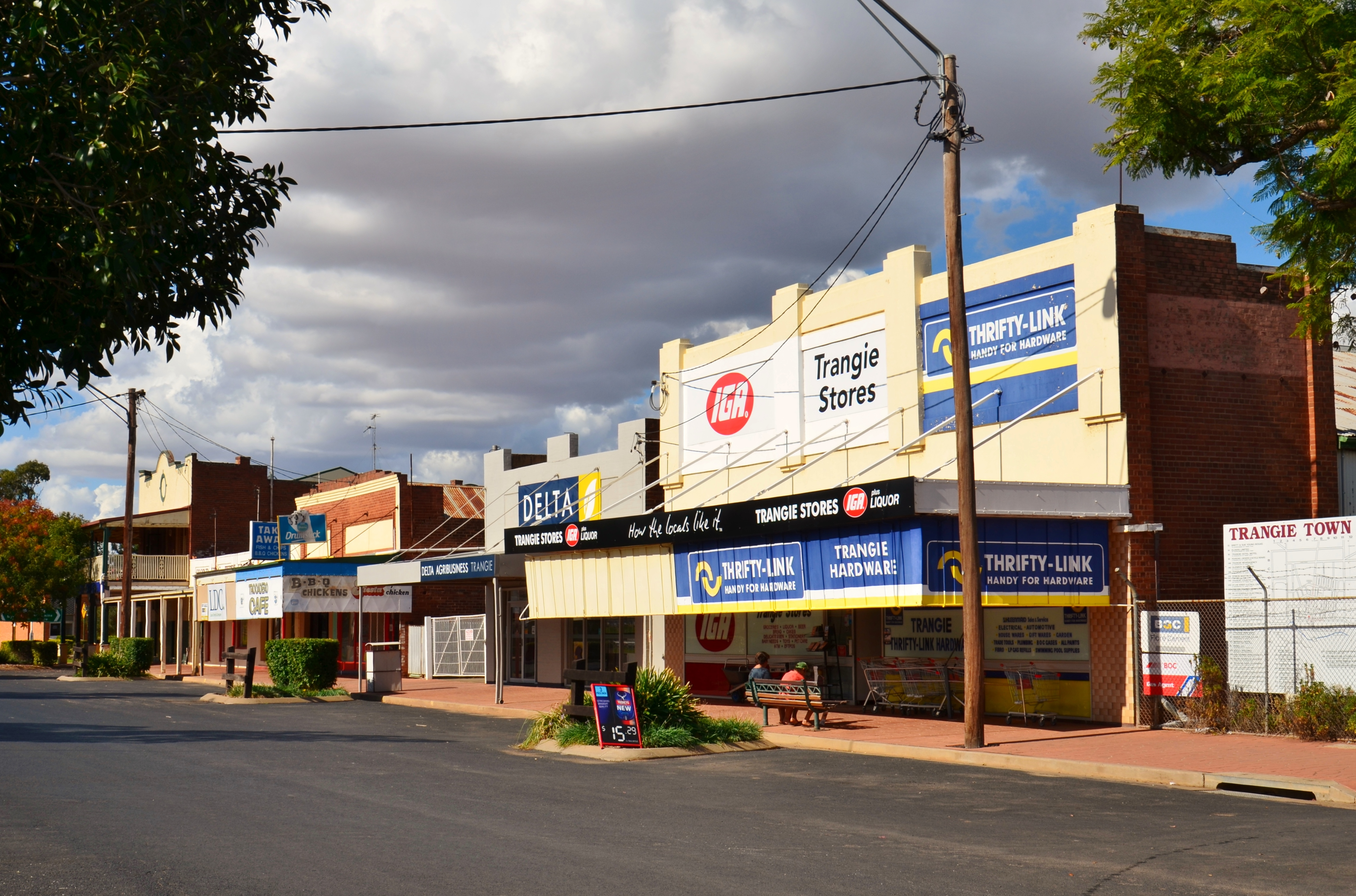 View of Dandaloo Street, the main street of Trangie, New South Wales